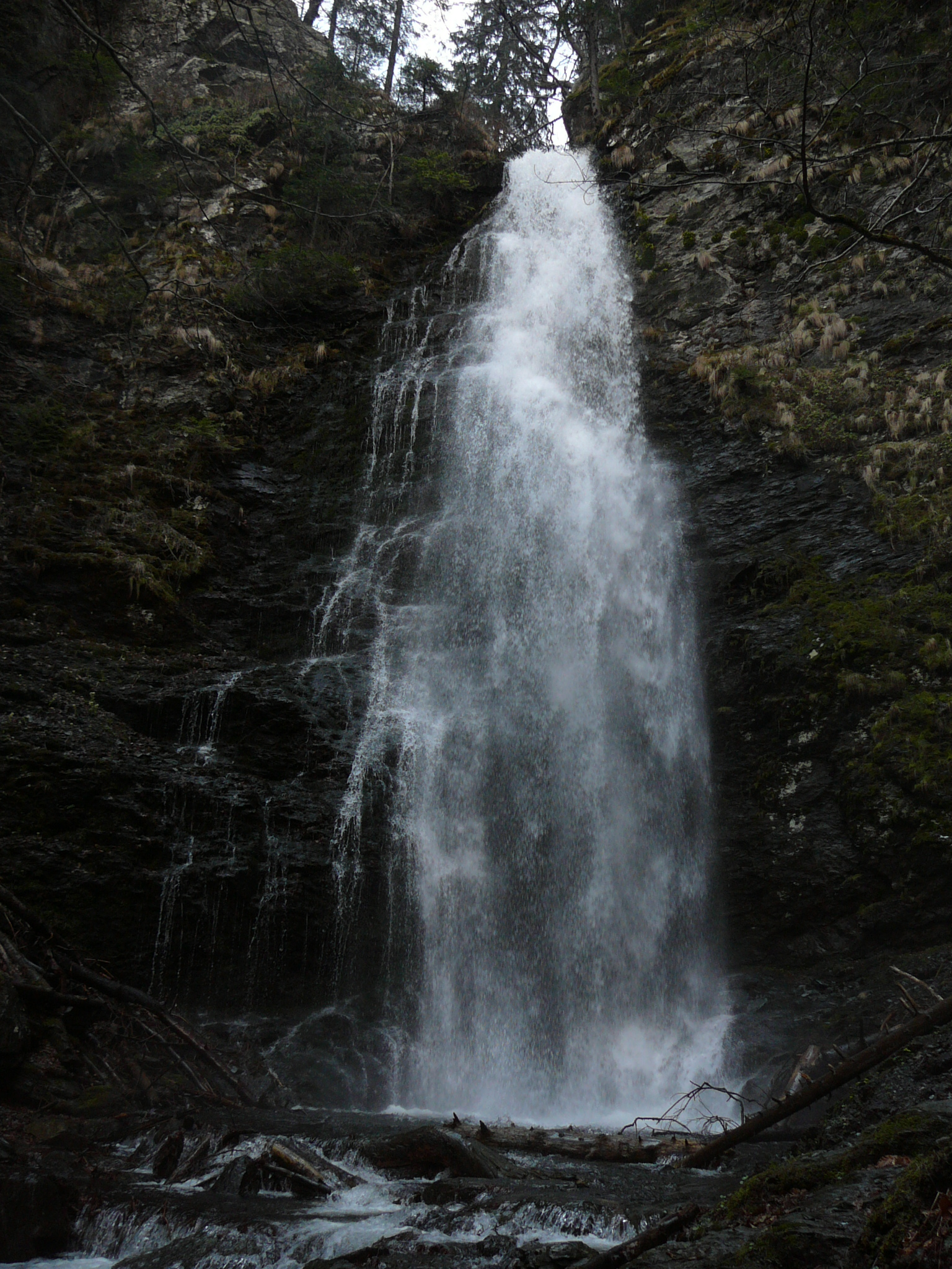 Waterfall Karlovsko pruskalo in Balkan Mountains, Bulgaria